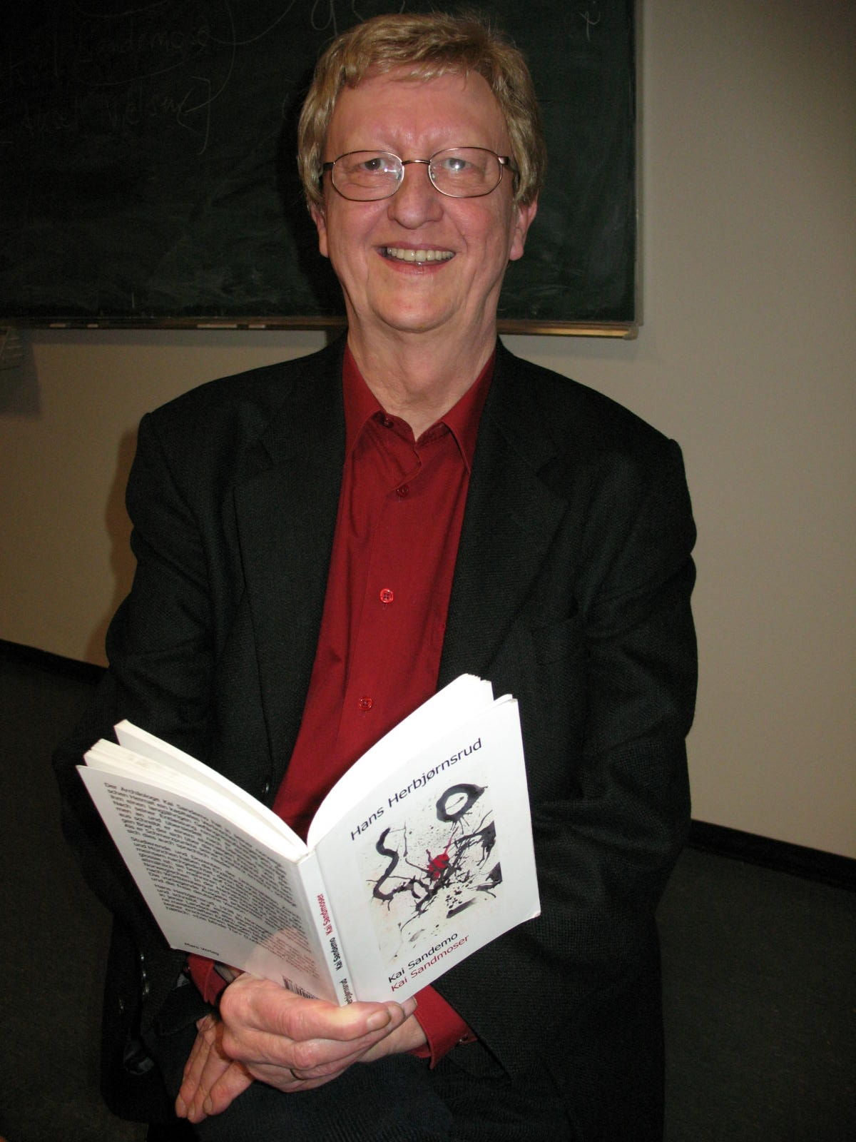 Norwegian author Hans Herbjørnsrud reading his novella „Kai Sandemo“ in Germersheim, Germany